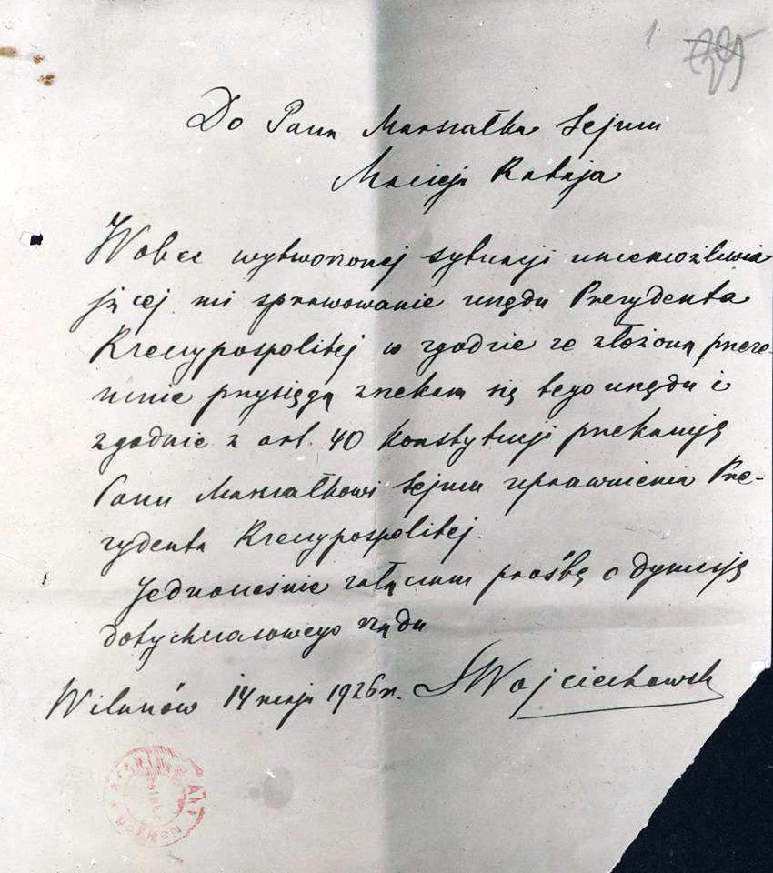 Act of resignation of President of Poland Stanisław Wojciechowski after May Coup